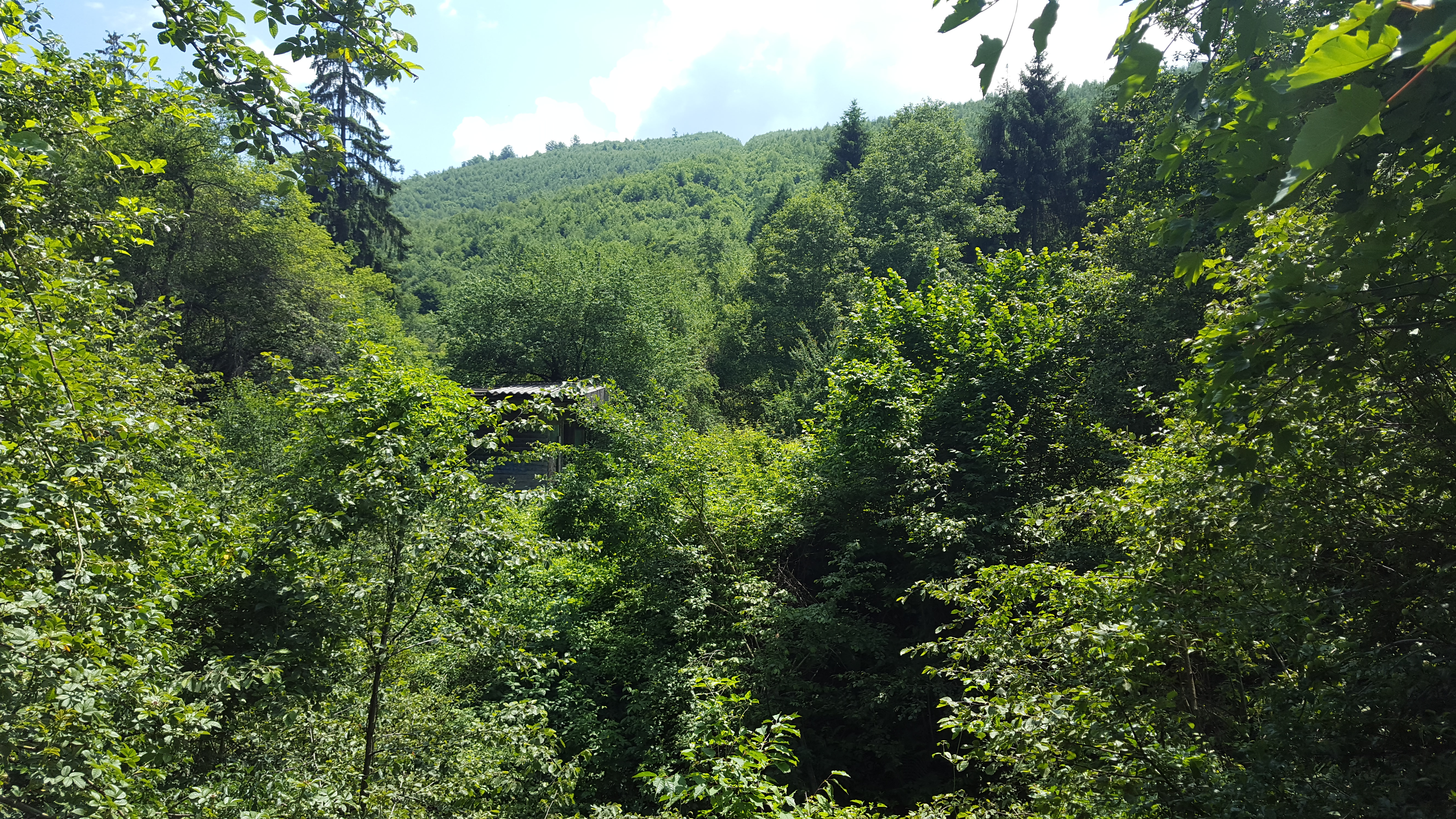 The site of the former inclined plane on Covasna - Comandau forest railway. The technology is dismantled, except for the remains of a wooden building at the left. The path of the plain can still be seen in the forest, as the vegetation is much lower there.